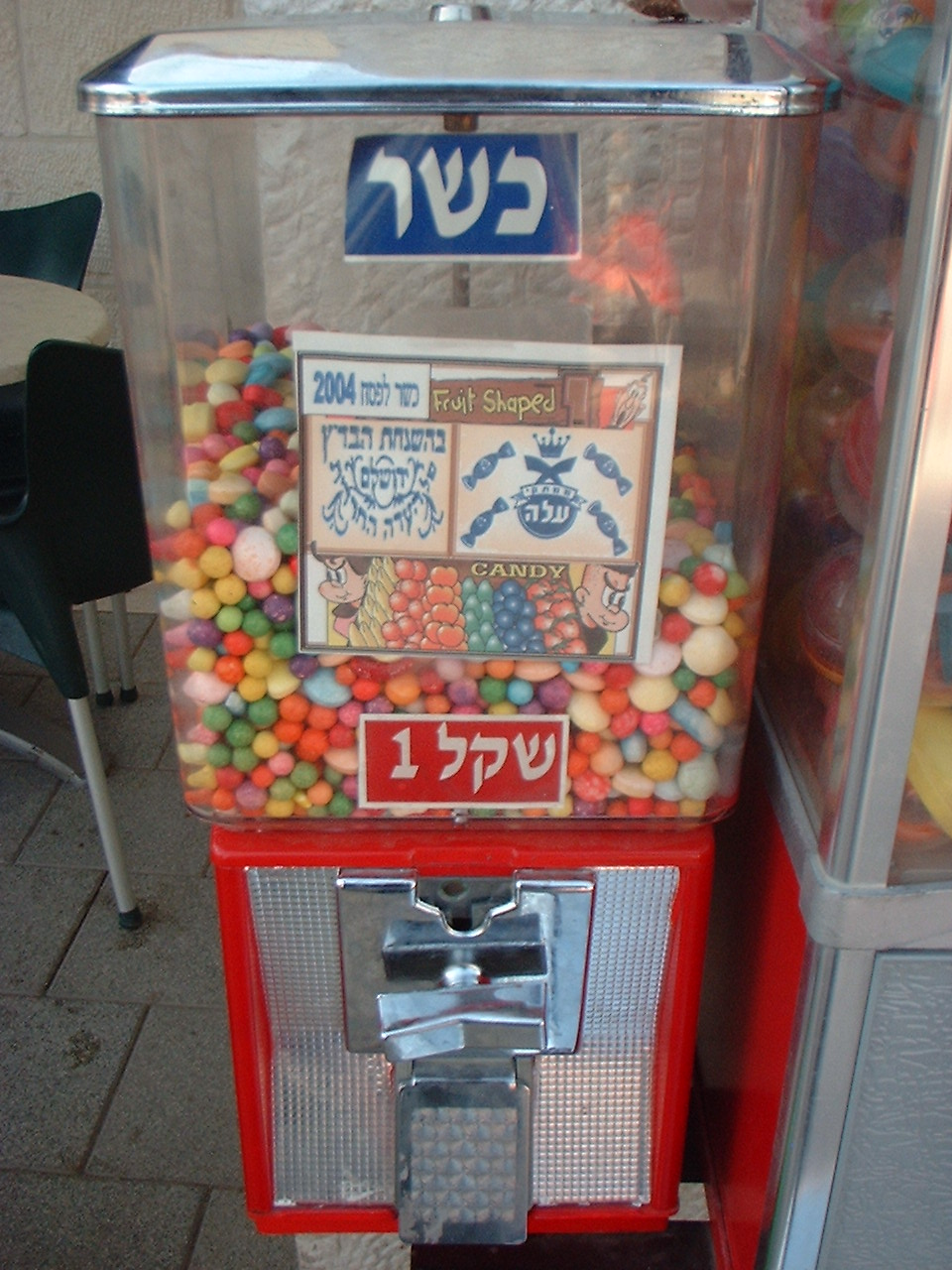 A gumball machine in Israel. The large sticker on the front says "kosher" in Hebrew.